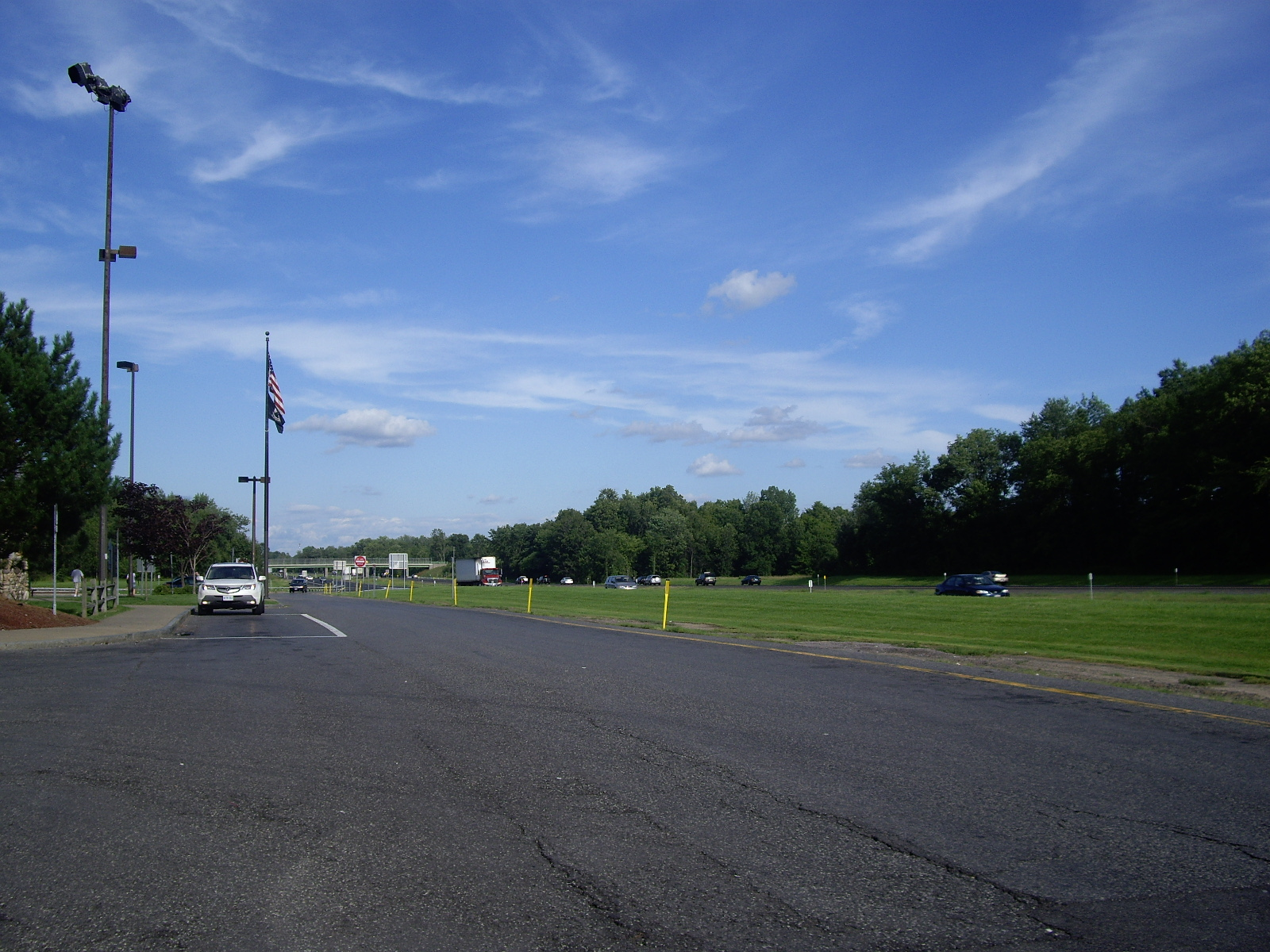 Interstate 90 (New York State Thruway) looking east towards Albany, New York.